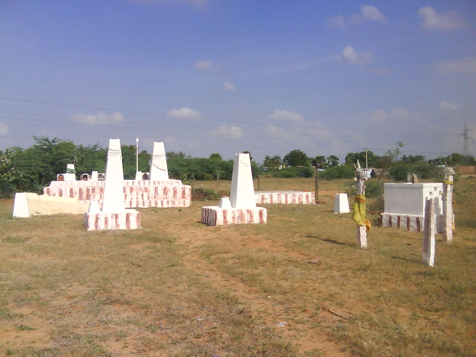 Its a commonly occurs security lord Sudalai Maadasamy temple at Tirunelveli District